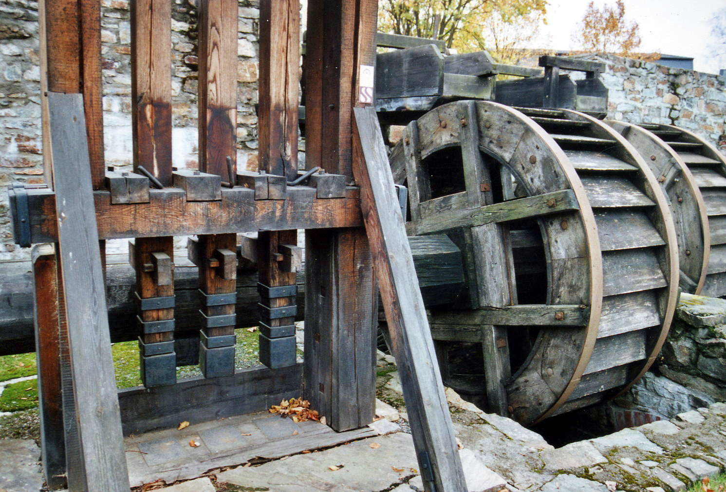 This image shows a stamp battery used in the former copperworks in Olbernhau-Grünthal in the Ore Mountains, Saxony, Germany.